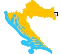 Position of Vukovar within Croatia.